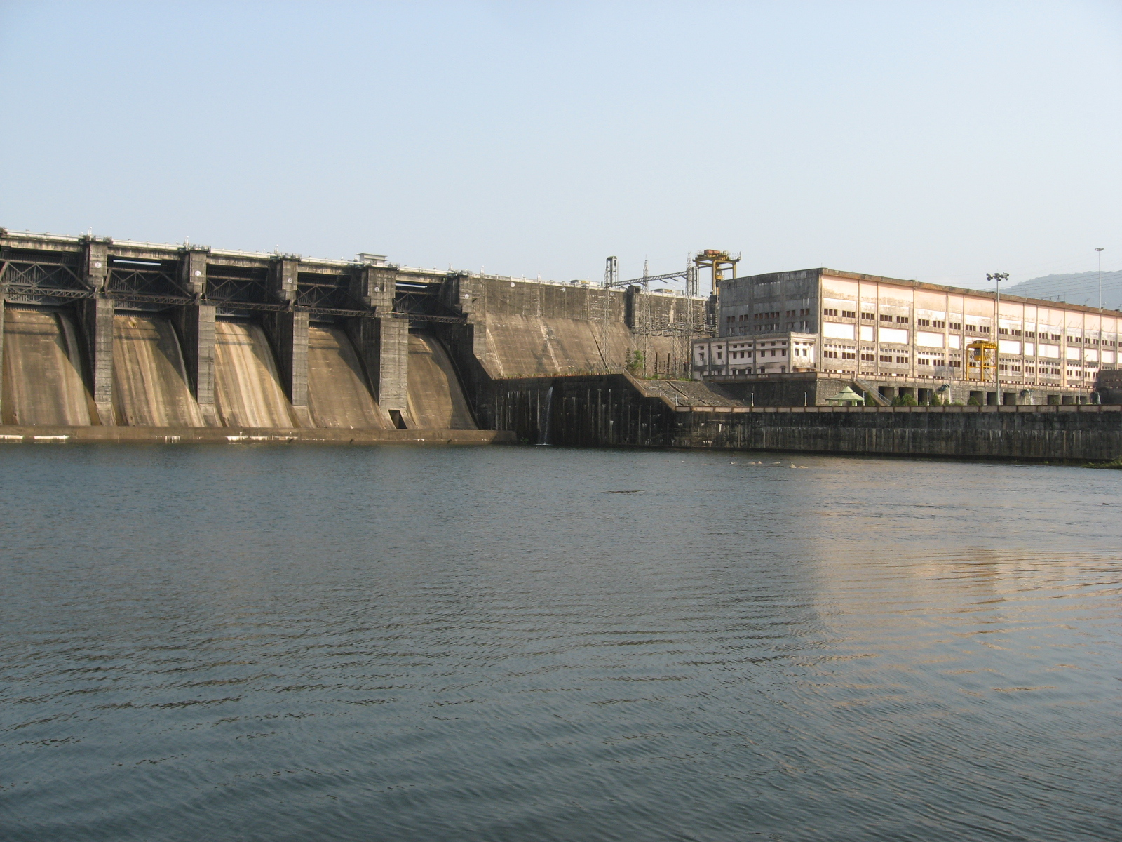 Kodsalli Dam and Power House across Kali River